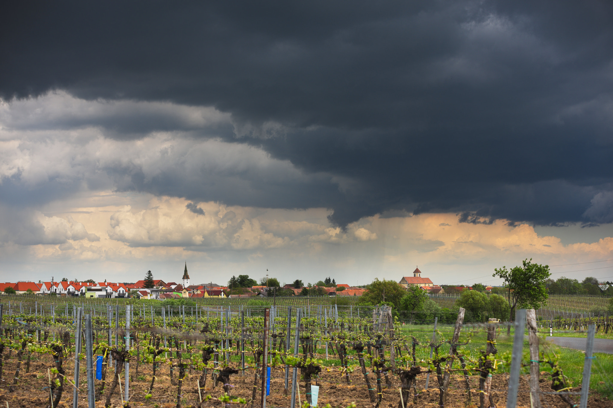 500px provided description: Obermarkersdorf [#landscape ,#church ,#clouds ,#rain ,#austria ,#village ,#countryside ,#wine ,#sigma ,#70-200 ,#wheather ,#wine yard ,#linux ,#wineyard ,#lower austria ,#rawtherapee ,#open source ,#free software]